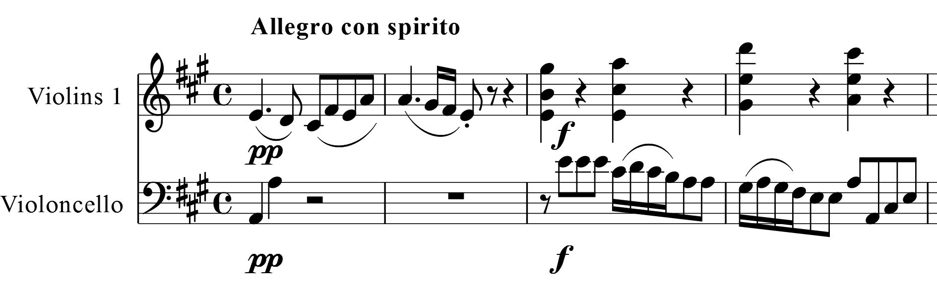 Joseph Haydn, Symphony No. 64, first movement, bar 1-4